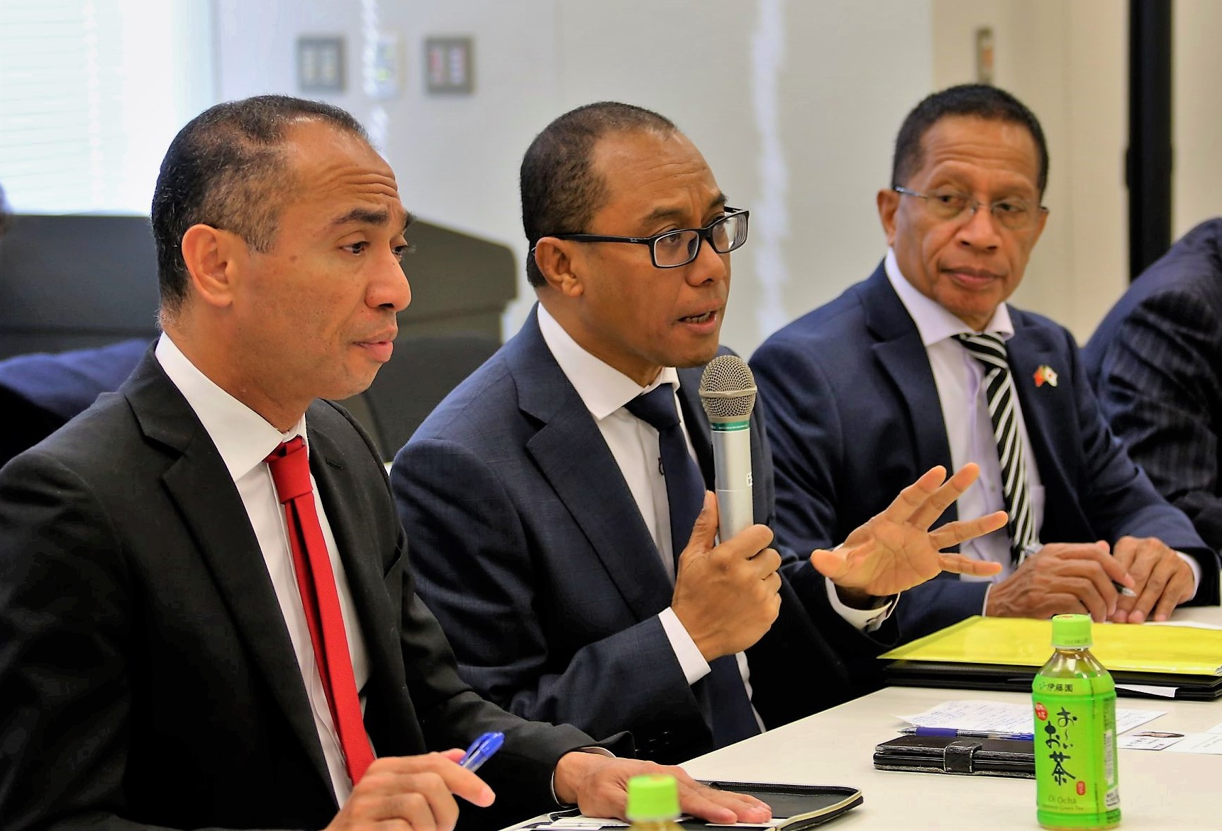 Tokyo, March 27, 2019 – Minister for Foreign Affairs and Cooperation (MoFAC), H.E. Mr. Dionísio Babo Soares, accompanied by Director General for Bilateral Affairs-MoFAC, Mr. Isílio Coelho, Timorese Ambassador in Japan, Mr. Filomeno Aleixo da Cruz, pay a courtesy visit to the President Member of Parliament Diet and Japanese Parliament working Group for Timor-Leste, Mr. Gen Nakatani. The purpose of the meeting is to discuss Japanese support to Timor-Leste through the cooperation in some important areas to Timor-Leste. Mr. Nakatani welcome the intention of the government of Timor-Leste of sending Timorese workers to work in Japan and requests the cooperation of the government of the two countries in implementing the program. Venue: meeting room of Japan National Parliament House, Tokyo-Japan